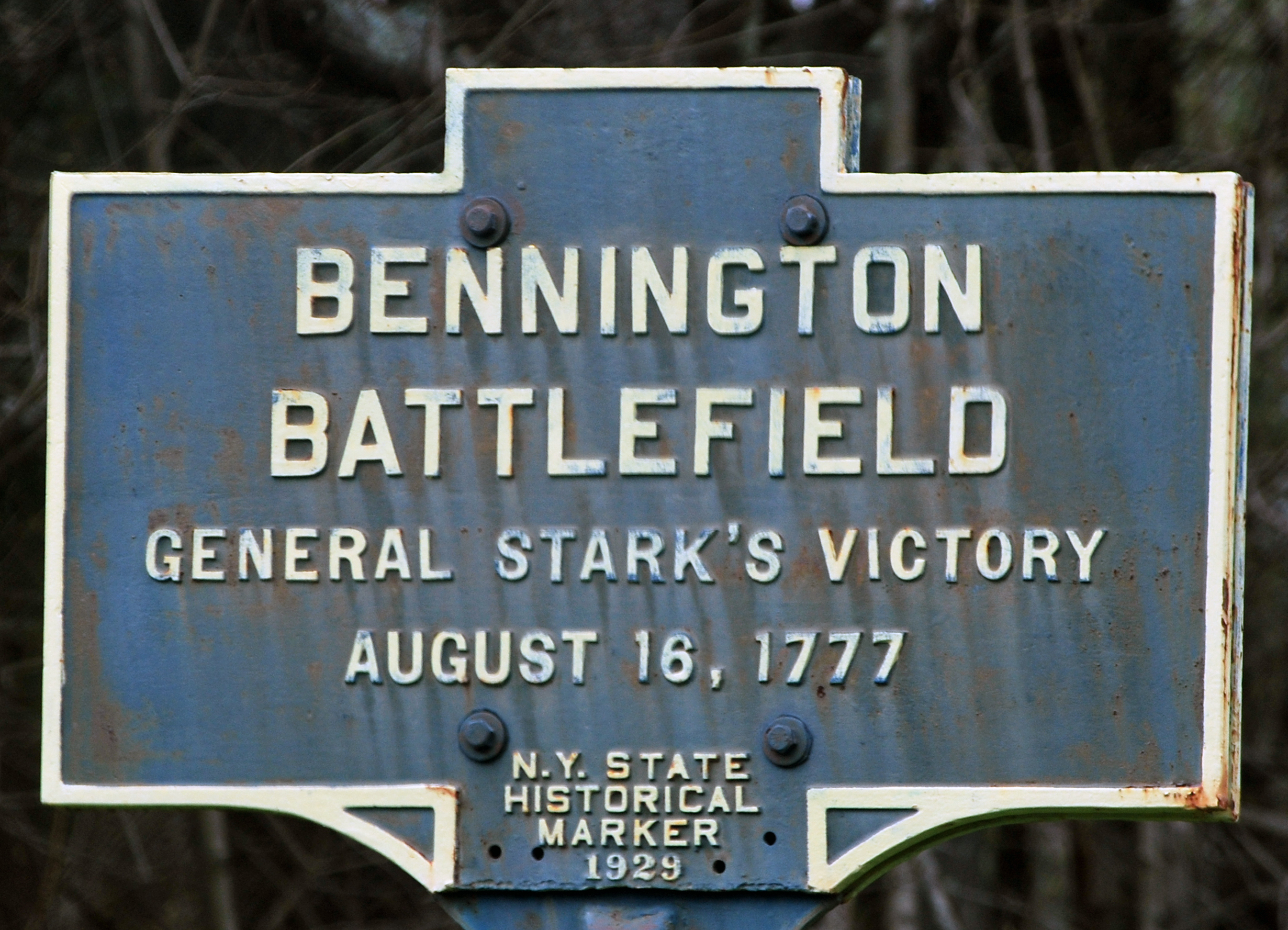 New York State Historic Marker noting the Battle of Bennington, a 1777 American victory during the American Revolution, which, while named for Bennington, Vermont, actually took place in Walloomsac, New York